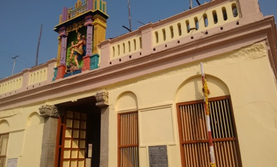 Kumbeswarar Temple Pandakkal for Mahamaham மகாமகத்திற்காக கும்பேஸ்வரர் கோயிலில் பந்தக்கால்